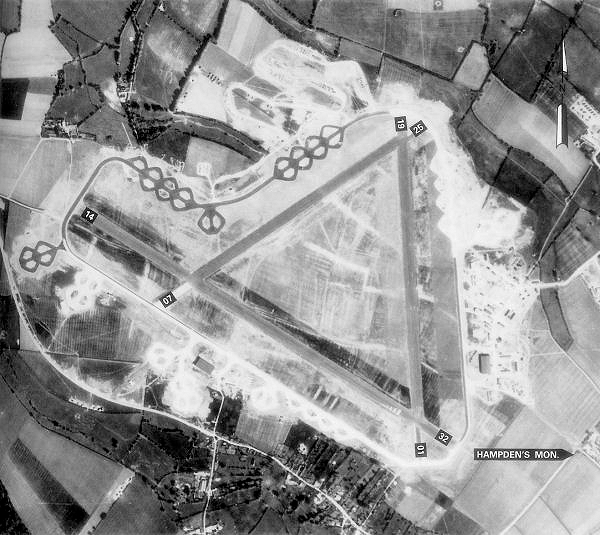 Aerial photograph of Chalgrove Airfield, England.